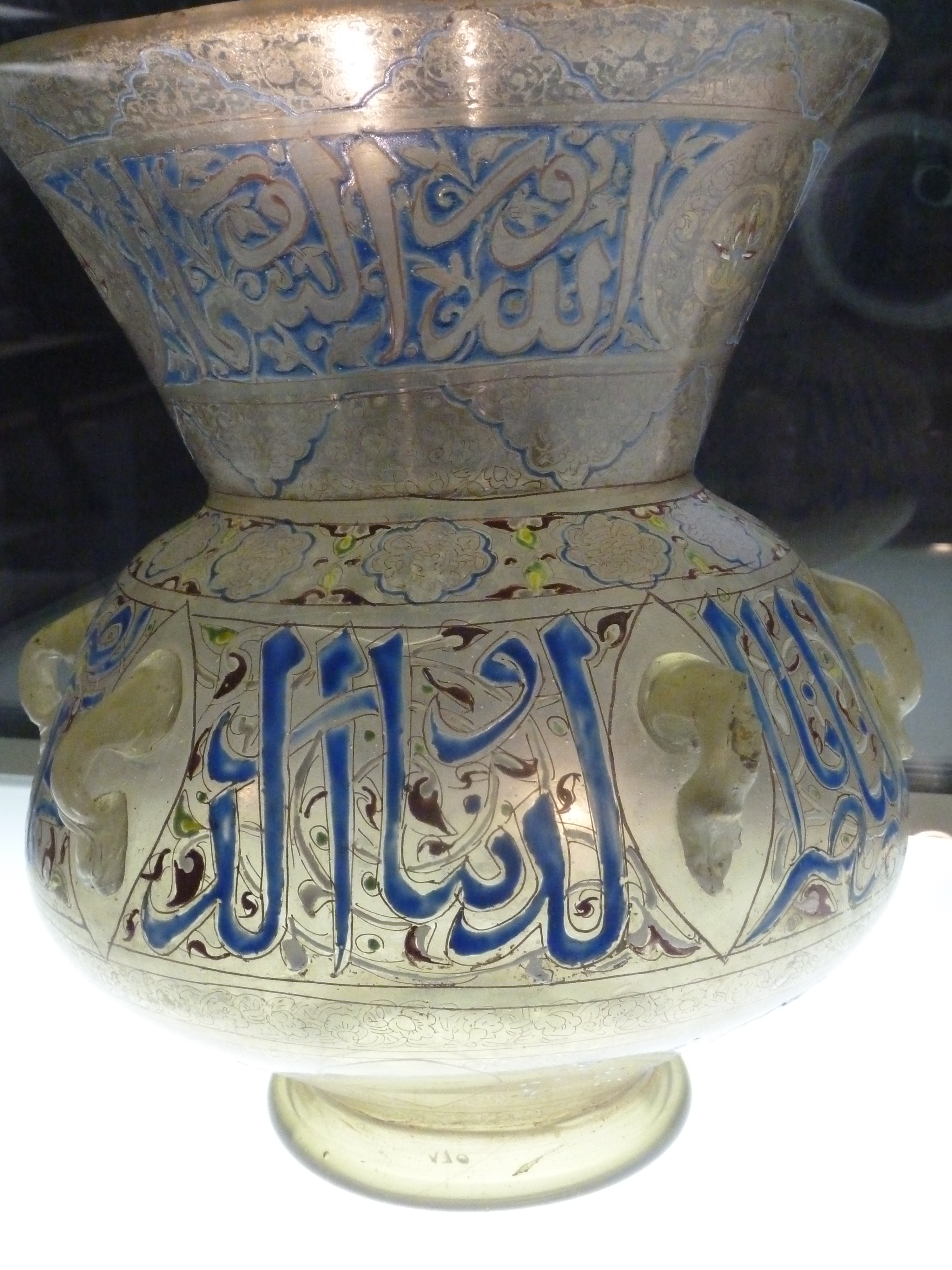 Calouste Gulbenkian Museum